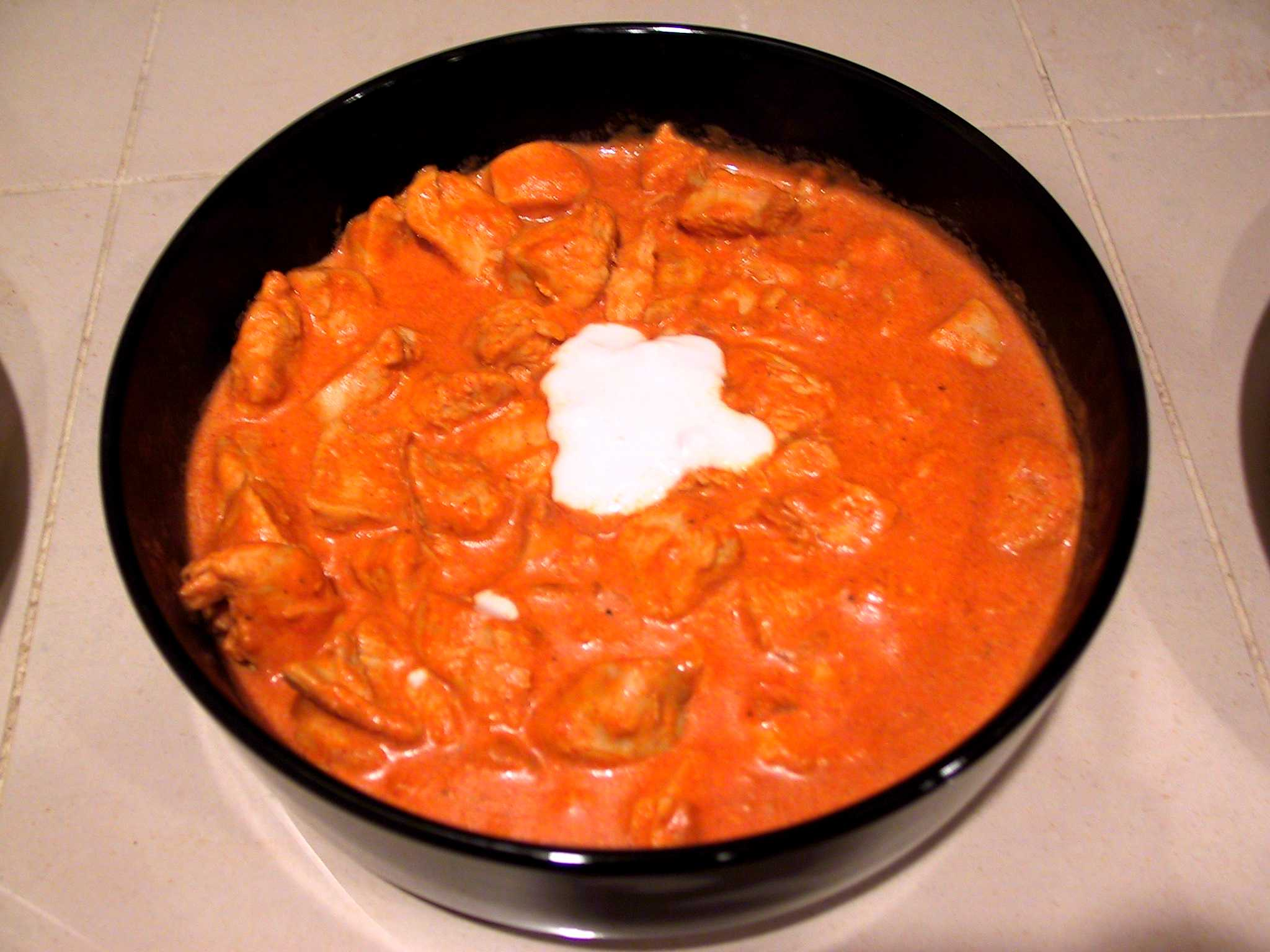 Chicken paprikash (Hungarian: paprikás csirke or csirkepaprikás) is a dish of Hungarian origin; one of the most famous Hungarian stews. Cooked paprikas are common in Hungarian cuisine, and dishes cooked in a creamy, red paprika stew have been referred to as a Hungarian staple. The meat is cooked with a paprika roux.